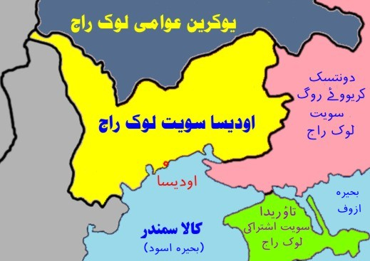 A Map of Odessa Sovite Republic in Punjabi Shahmukhi.